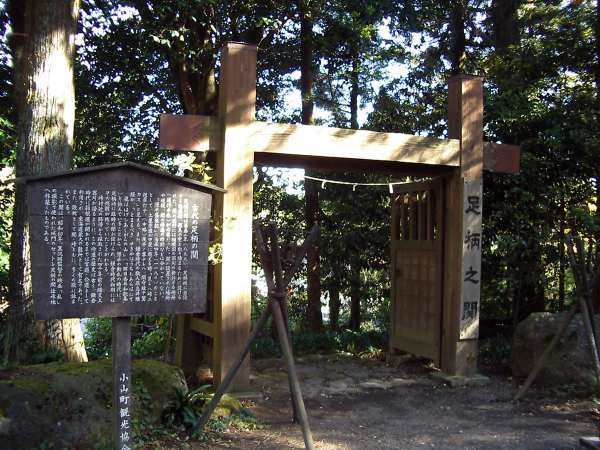 A border gate between Suruga and Sagami of Japan at Ashigara Pass. The gate was made for a film Ran by Akira Kurosawa. 駿河国と相模国境に置かれた足柄の関。これは黒澤明の『乱』のために作られたもの。